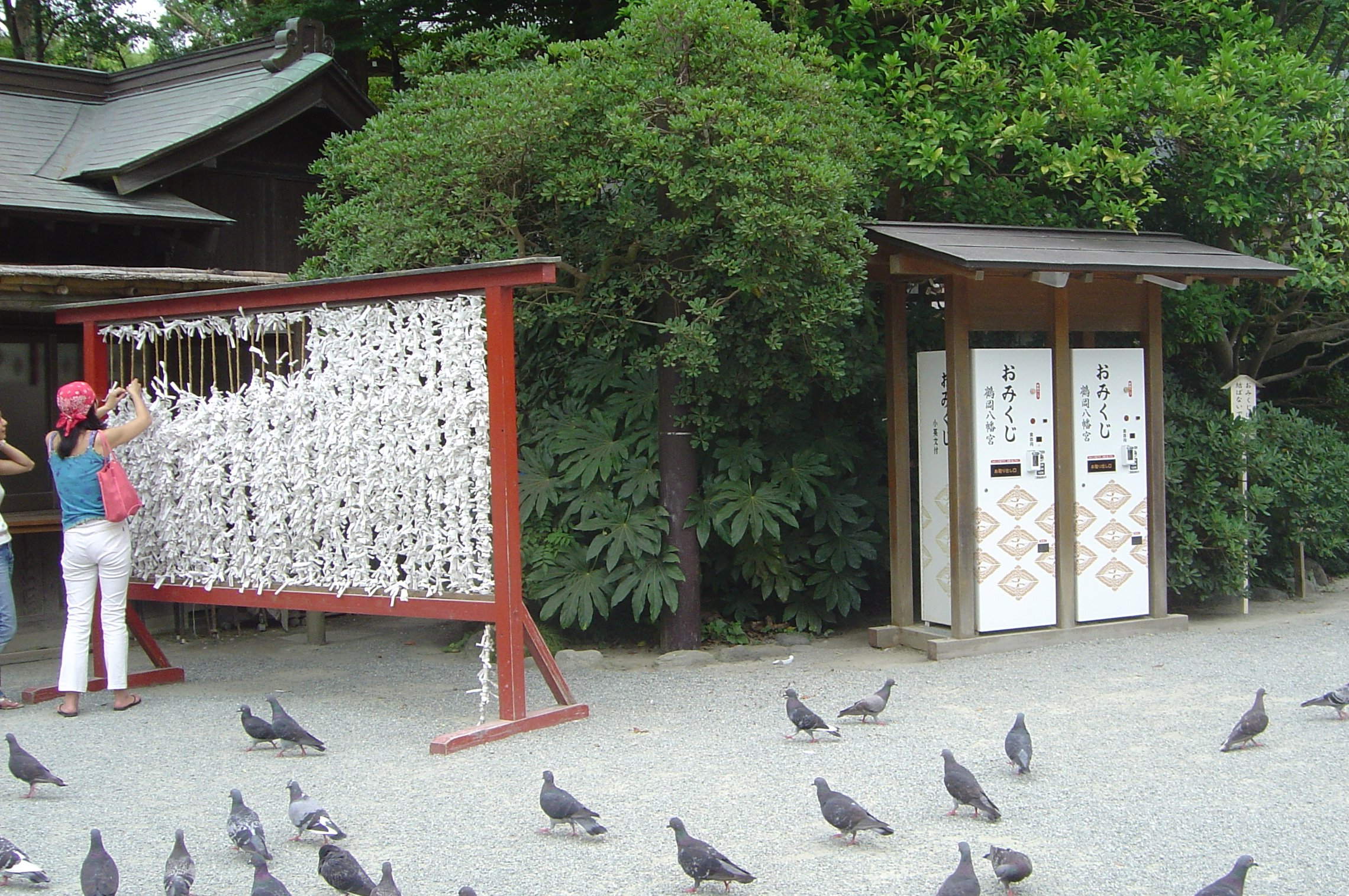 Kamakura, Japan: shrine of Hachiman, god of war (Minamoto family); automatic vending machine for omikuji (wish paper strips) and wishes tied to a tree